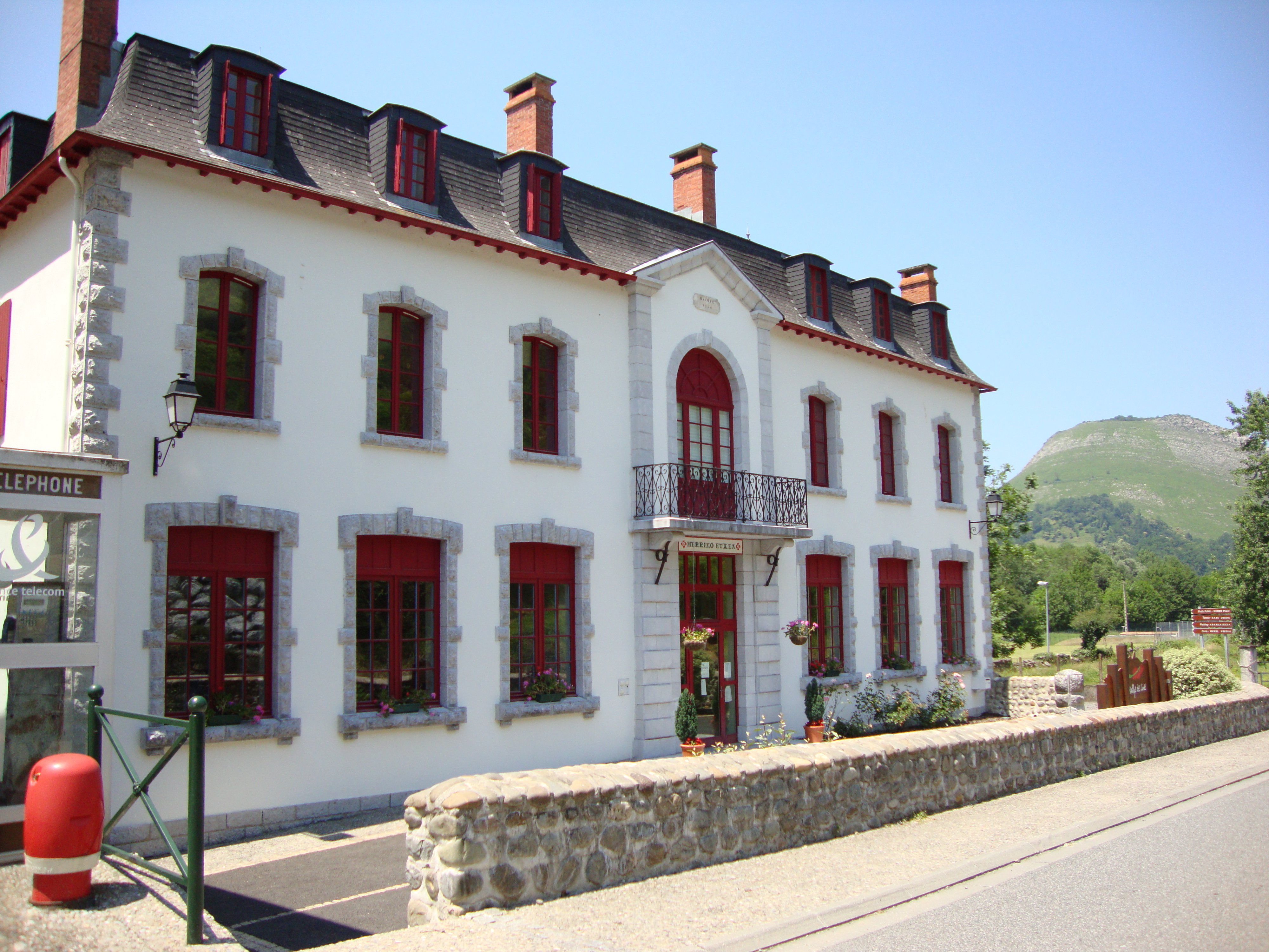 Licq (Licq-Athéry, Pyr-Atl, Fr) town hall